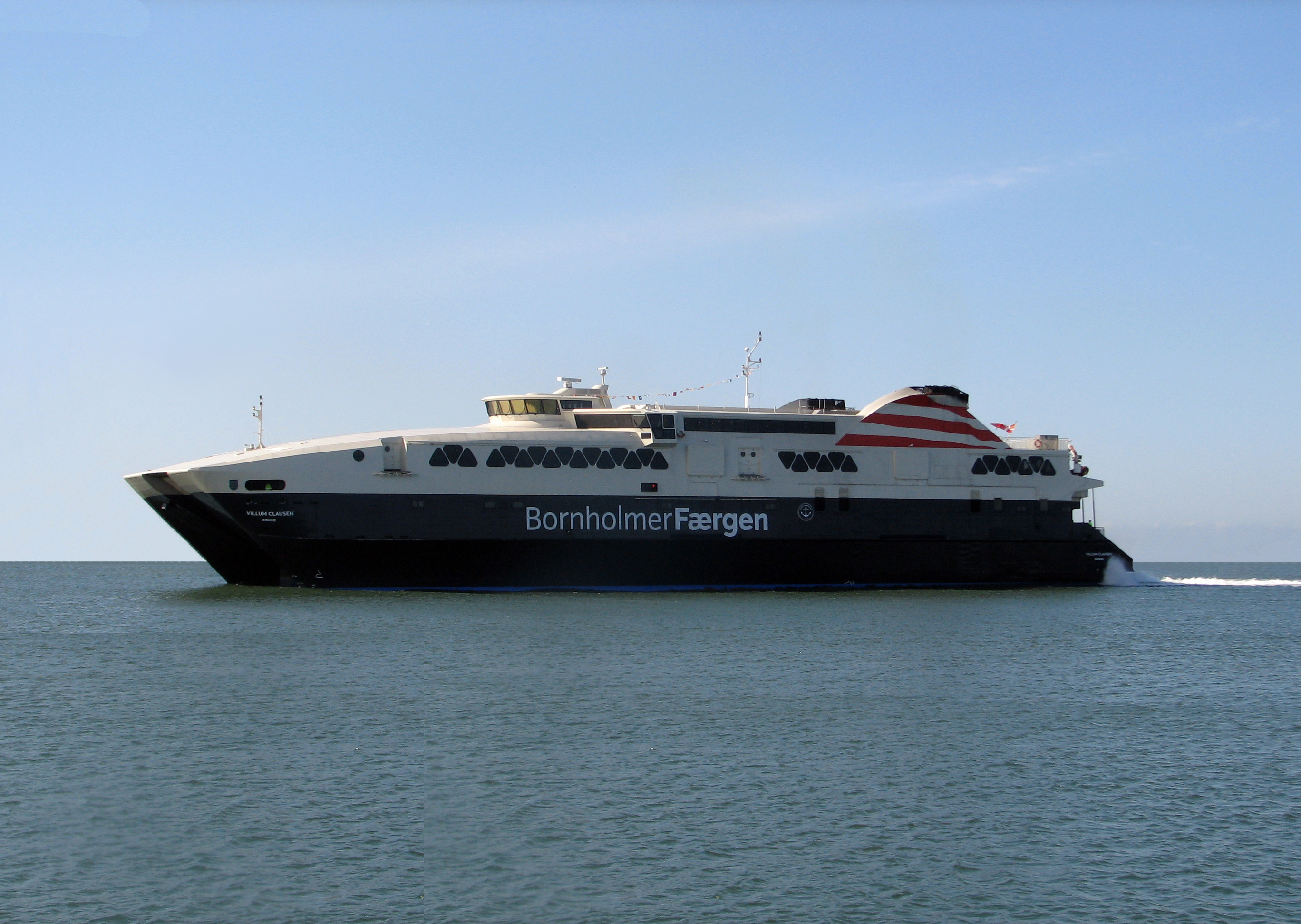 Villum Clausen in the harbour of Rønne